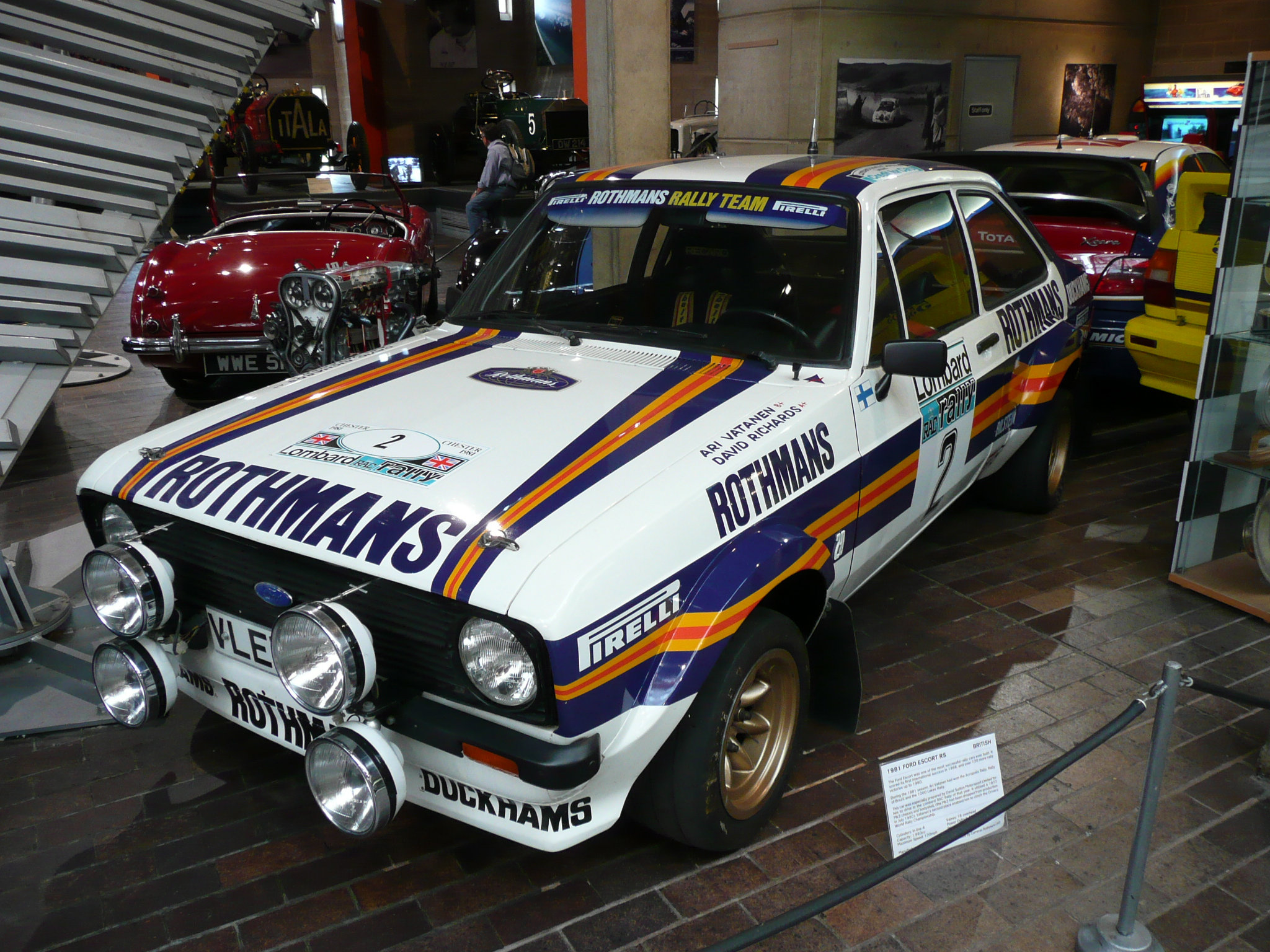 1981 Ford Escort RS, National Motor Museum in Beaulieu.